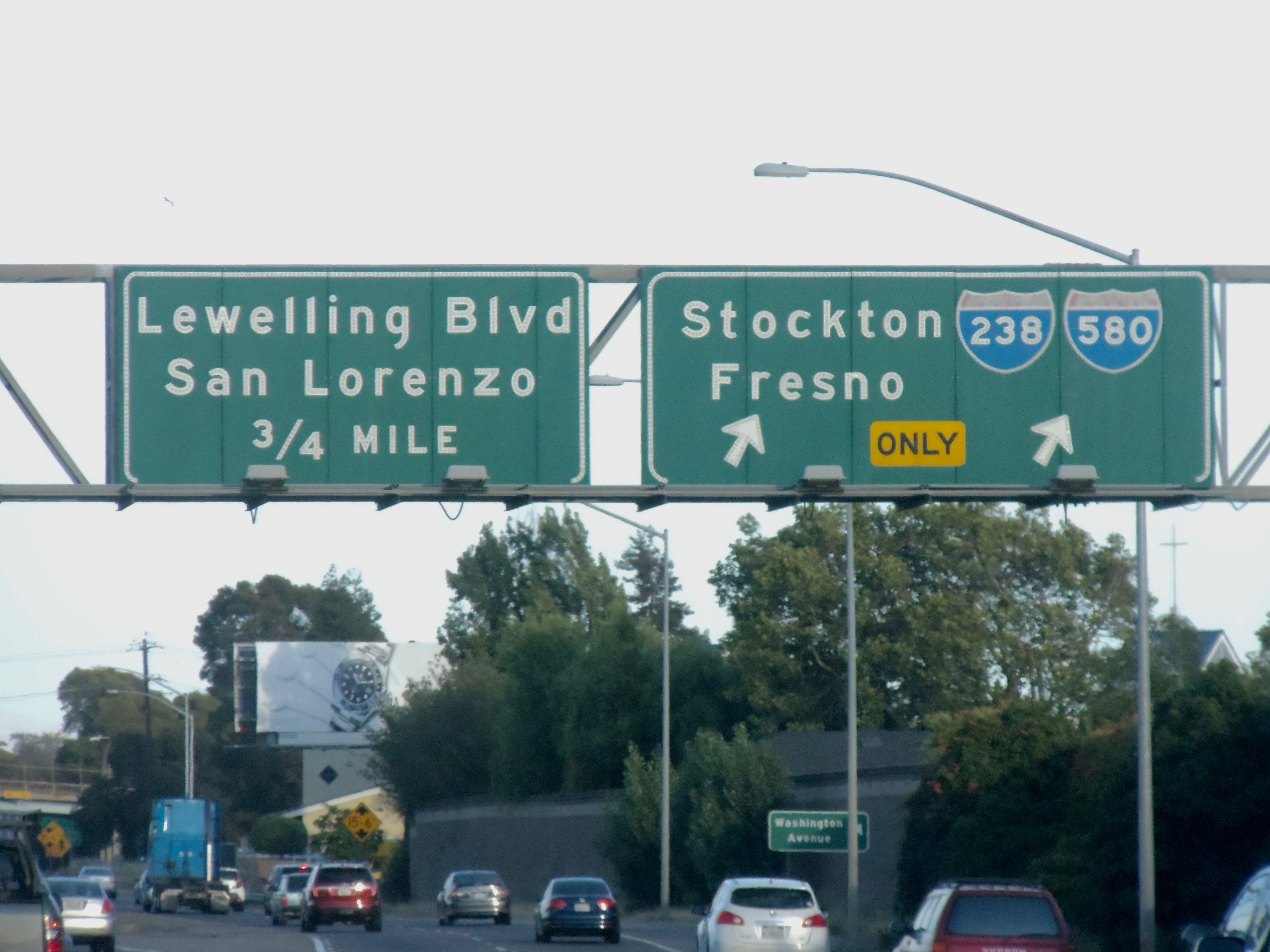 Overhead sign along southbound I-580 denoting the unusual numbering of I-238.